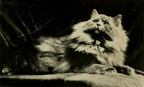 "Mrs. H. V. McConn's imported blue male. Sire, Bon- nie Marcello; dam, Colina. Shiraz is of the celebrated Ch. Orange Blossom of Thorpe strain, and has won First and Specials for best cat in the show, Orange, N. J., 1909; also First and Specials for best blue, Hartford, Conn., 1909; the only occasions on which he has been exhibited. Mrs. McConn is the owner of several other beautiful blues her cattery in Oyster Bay, N. Y."